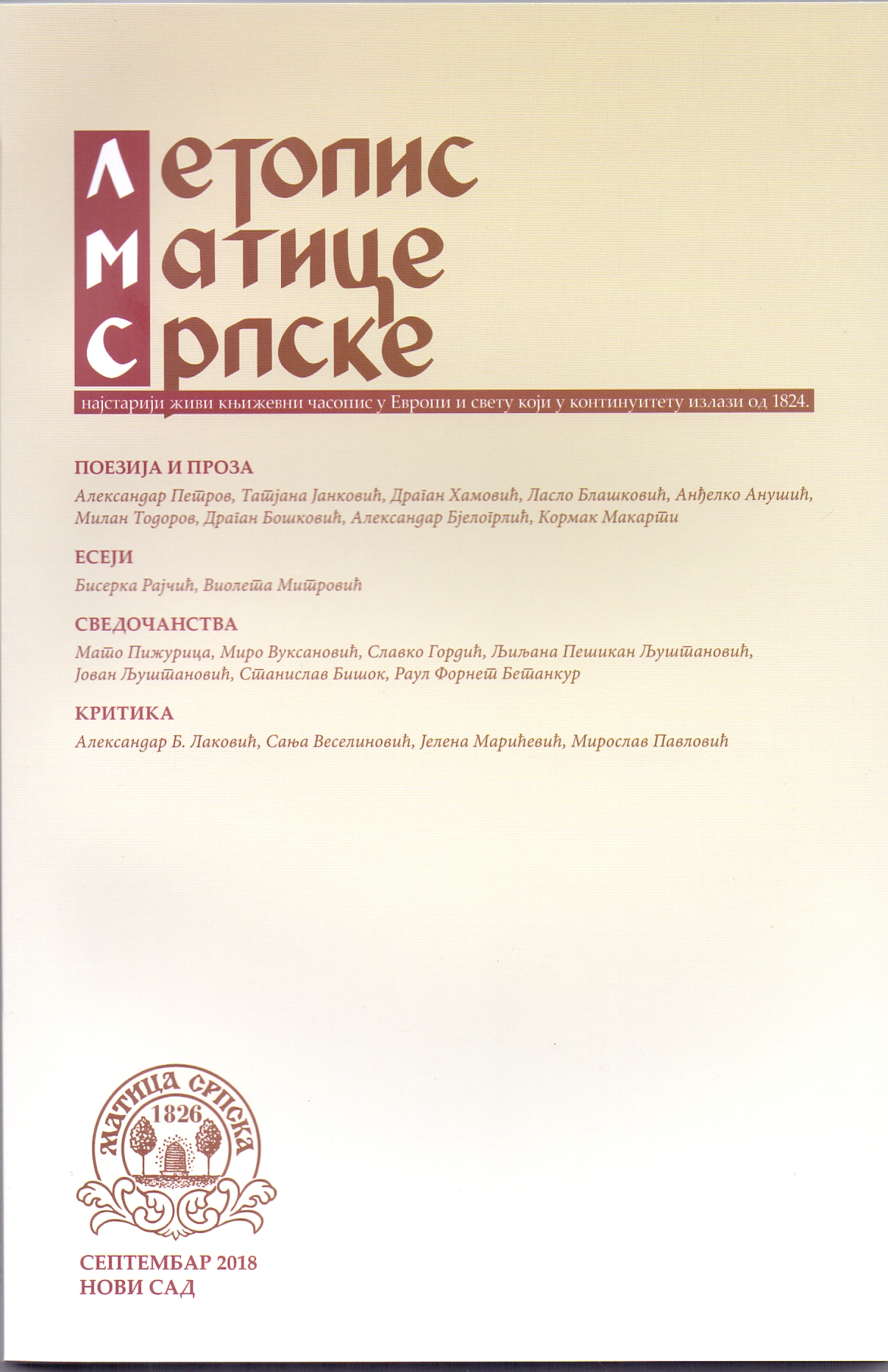 Cover of Serbian scientific journal Letopis Matice srpske, Novi sad, Serbia, 2018.